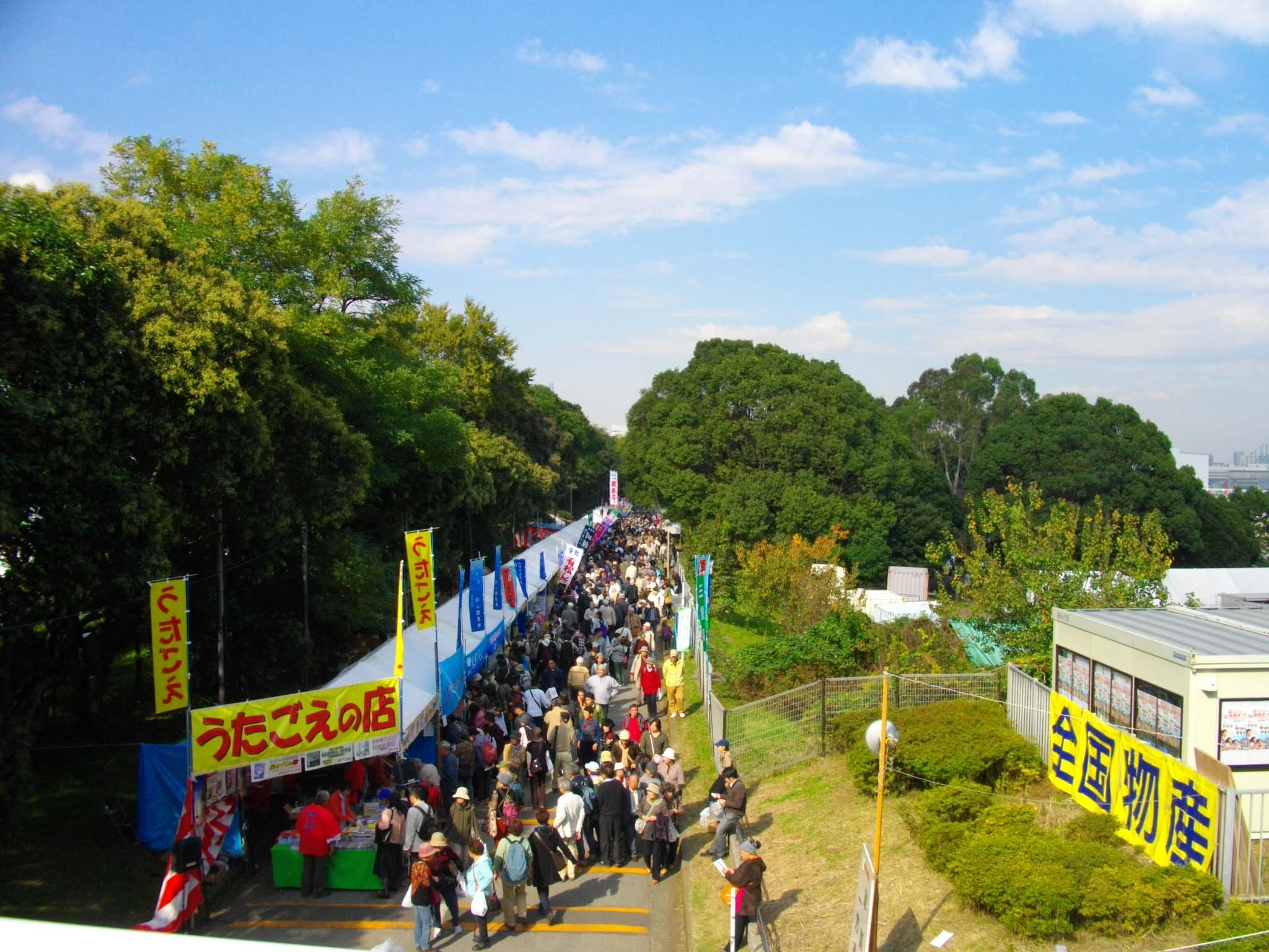 Akahata Matsuri